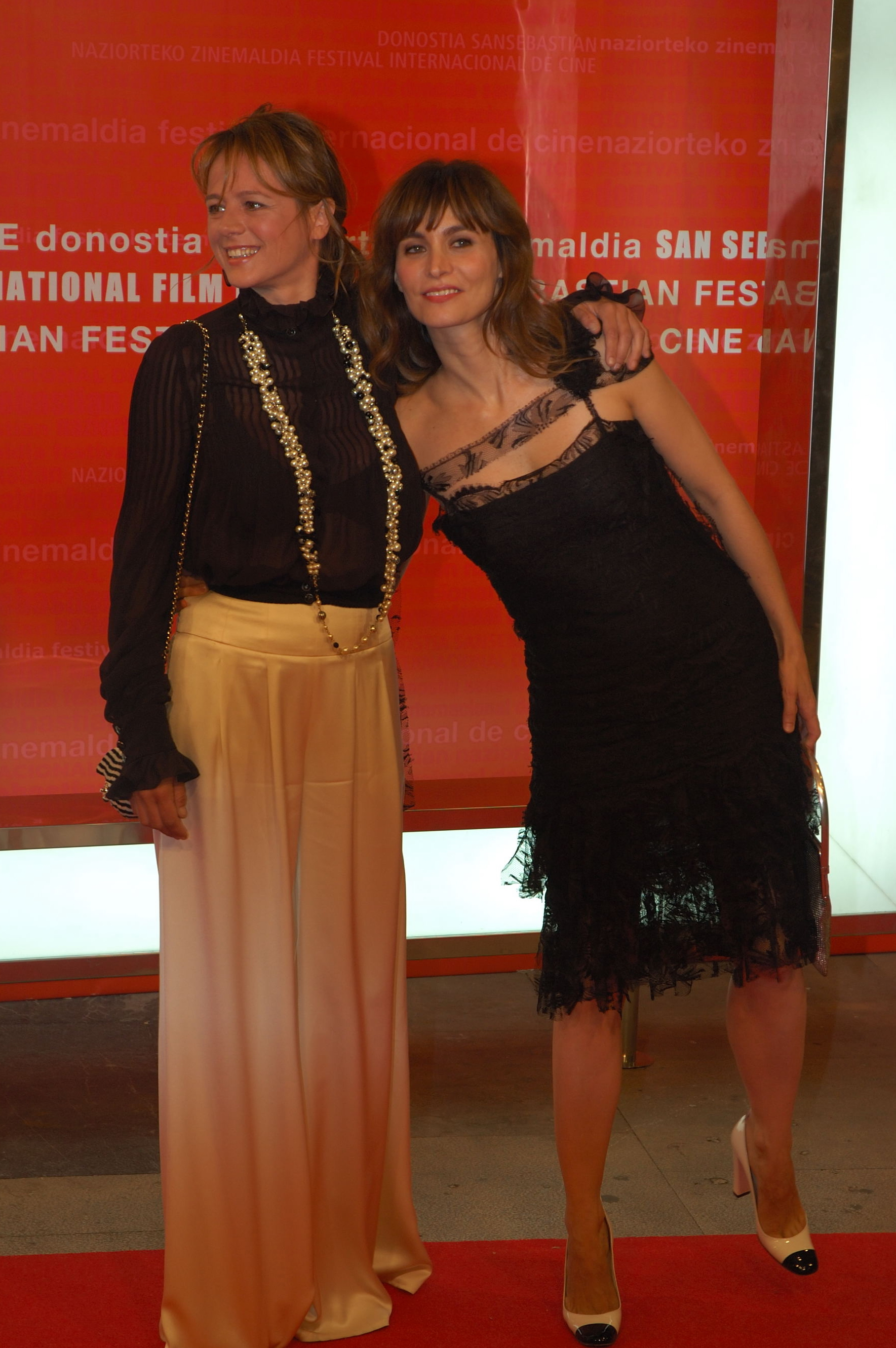 Spanish actresses Emma Suárez (left) and Ana Risueño (right)